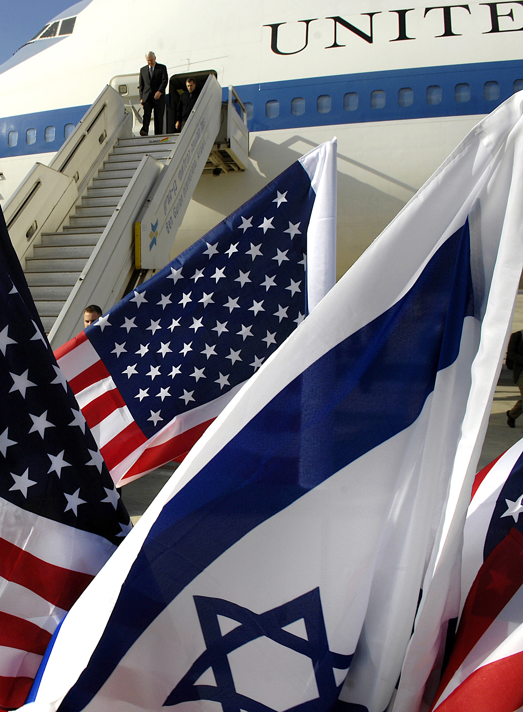 Israeli and American flags fly as U.S. Defense Secretary Robert M. Gates arrives in Tel Aviv, Israel, April 18, 2007.